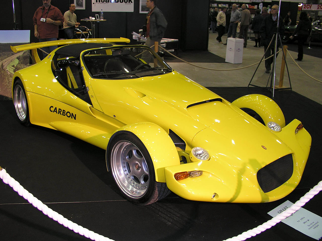 Sports car with 300 hp Cosworth engine made in small numbers by Tony Gillet in Gembloux, Belgium; right front-side view. Though identified as a 2005 model by the sign in front of the car its actually a Mk 1 model from 1994.